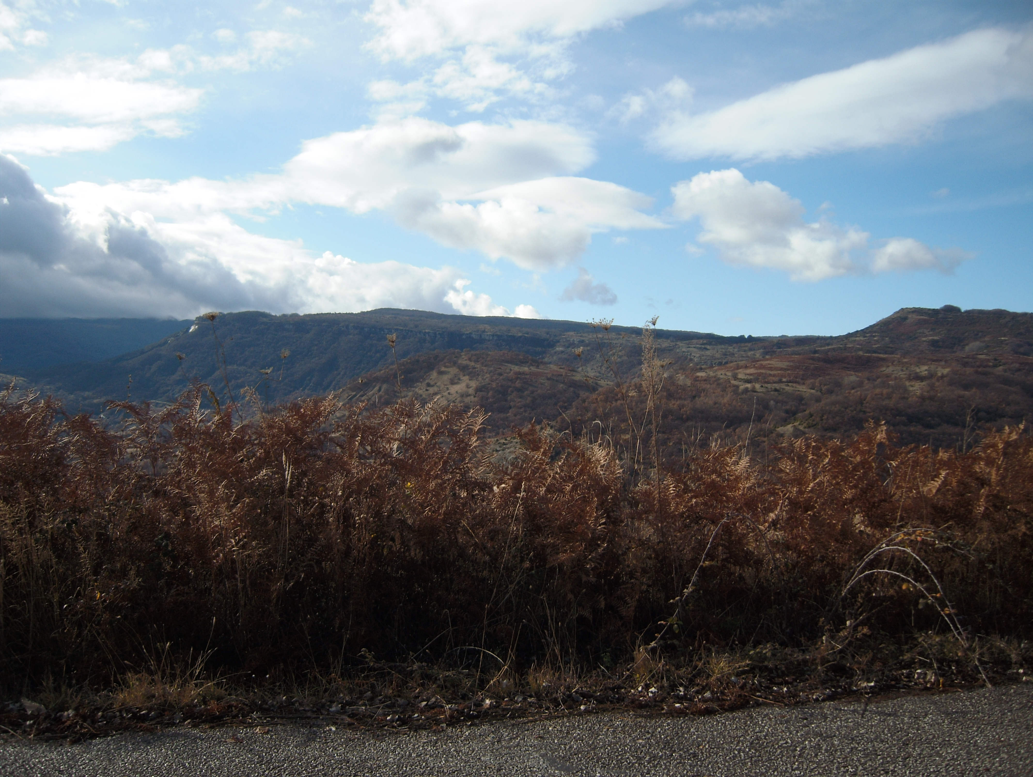 Odre / Odria